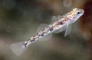 picture of Painted goby (Pomatoschistus pictus adriaticus)